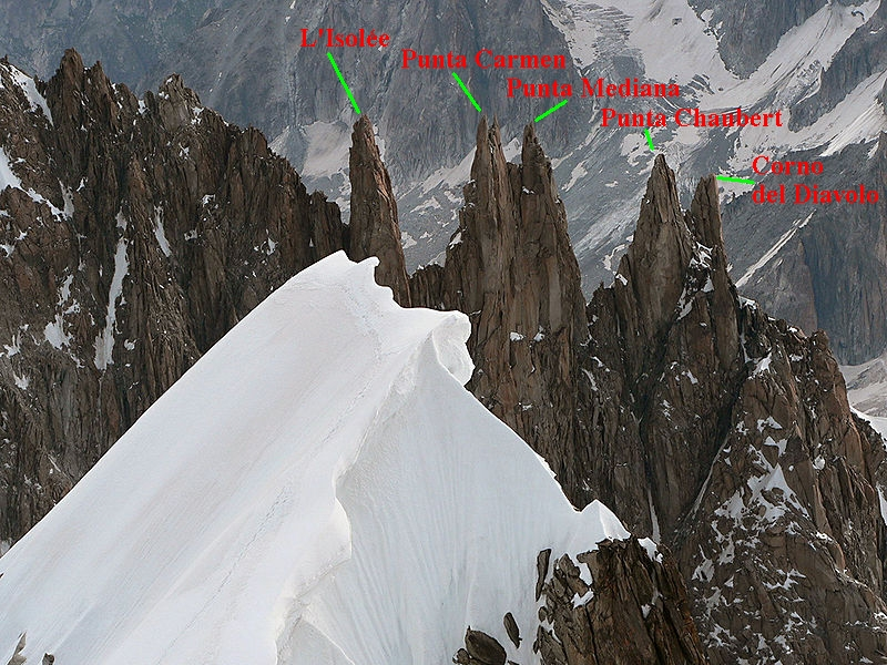 Aiguilles du Diable